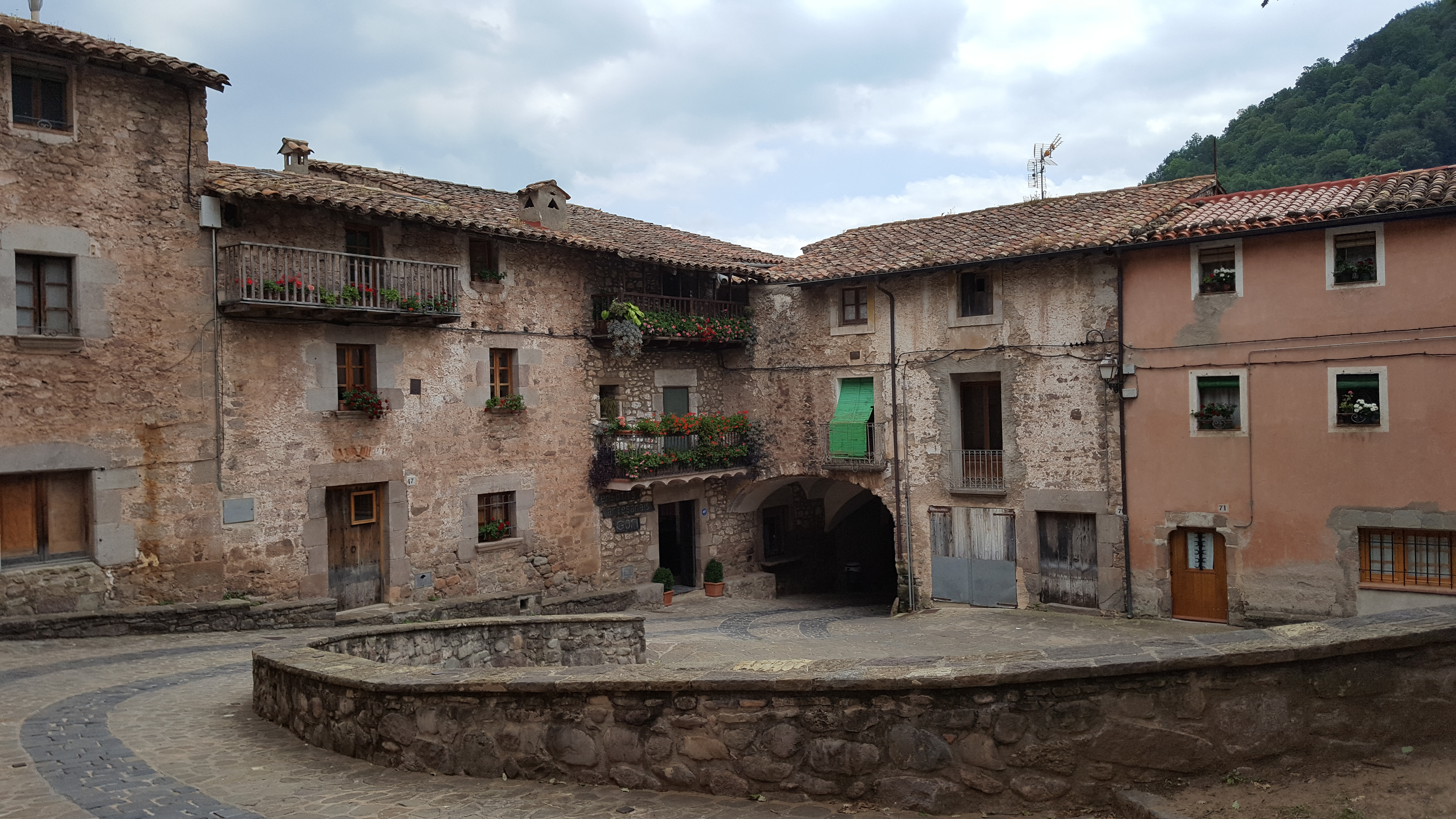 Sant Privat d'en Bas, La Vall d'en Bas, Catalonia, Spain